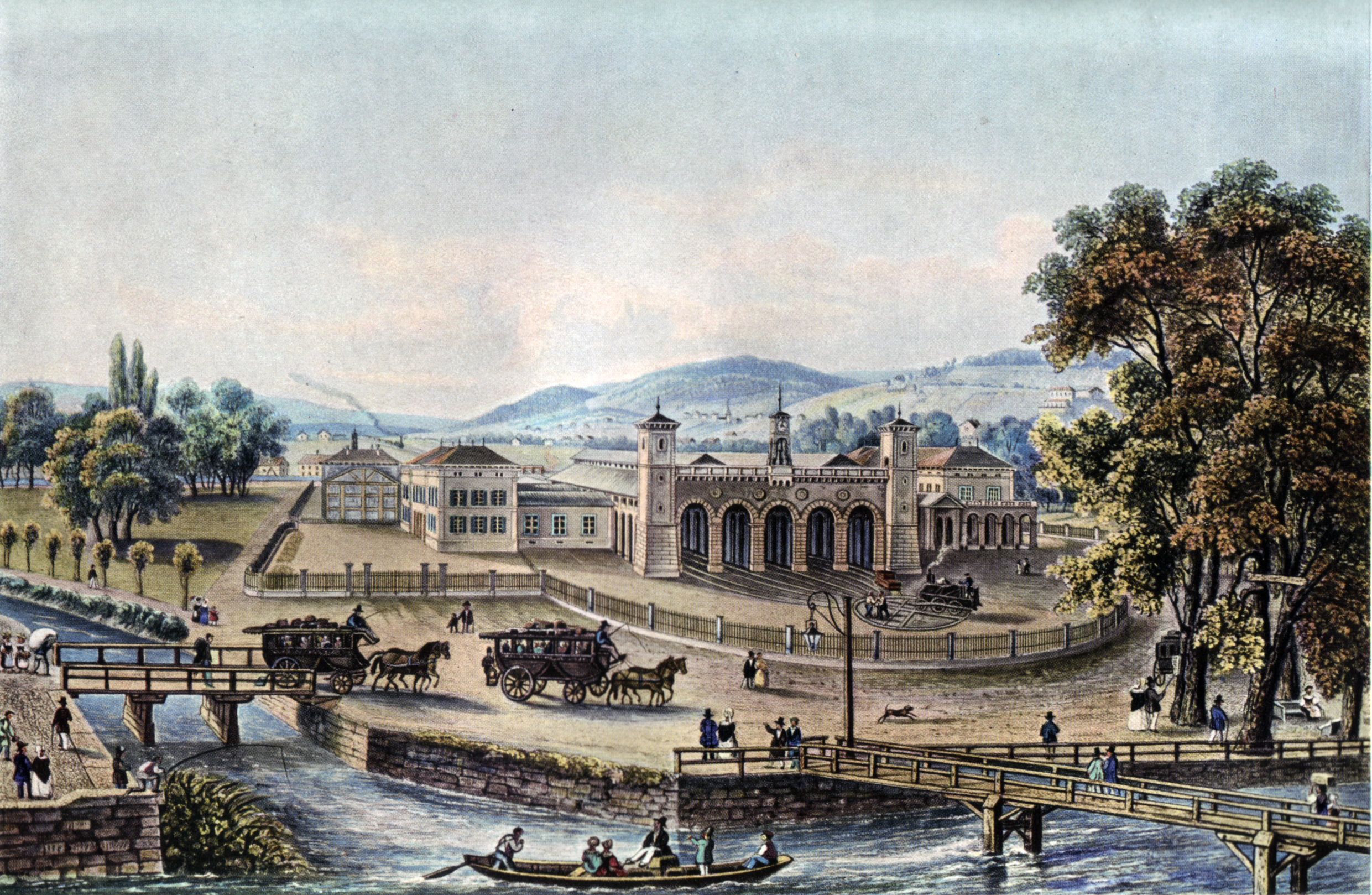 Zürich station 1847, seen from the river Limmat